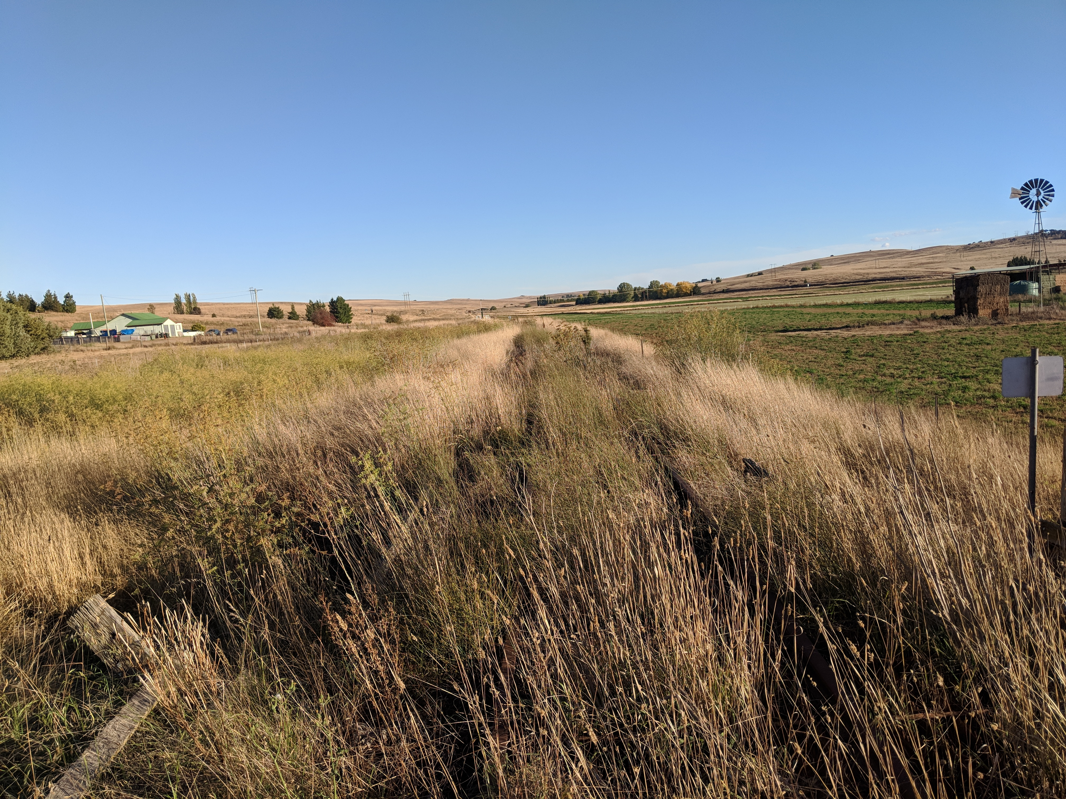 Bunyan, New South Wales, towards the former station